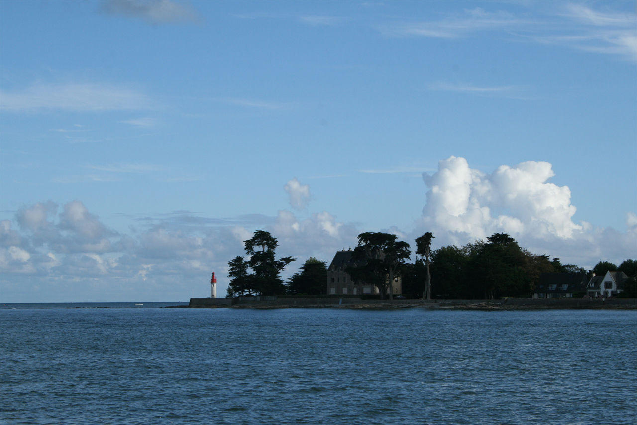 Lighthouse Langoz Loctudy Finistère France